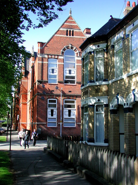 Boulevard High School, Hull, East Riding of Yorkshire, England.The northern (Anlaby Road) end of Boulevard, looking north from No.5 across the junction of Malm Street towards the old Boulevard High School. The school opened in 1895 with provision for 290 boys and 290 girls including infants and juniors but by 1907 had become just a secondary school. The pioneering aviatrix Amy Johnson went to school here from 1915 to 1922 and went on to become famous in her own lifetime for making various (largely unsuccessful) attempts to beat long distance flying records. Amy died while flying for the Air Transport Auxiliary during World War Two, when on 5th January 1941 her plane crashed into the Thames estuary and her body was never recovered. The high school moved to new premises in Pickering Road in 1940 when it became the Kingston High School, and by 1990 the old school buildings on Boulevard had been converted into apartments called Rosedale Mansions.